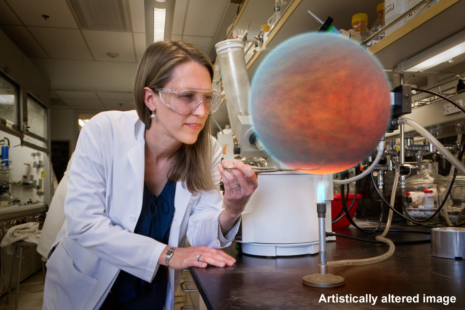 If astronomers could somehow pull planets out of the sky and analyze them in the laboratory, it might look something like this artistically altered image illustrating new research from NASA's Spitzer Space Telescope. The infrared observatory allows astronomers to study closely the atmospheres of hot Jupiter planets -- those outside our solar system that orbit near the blistering heat of their stars. In this image, an artistic version of a hot Jupiter inspired by computer simulations has been inserted into a photo showing a Spitzer researcher, Heather Knutson, in a laboratory at the California Institute of Technology in Pasadena, where she works. In reality, Knutson does not work in a lab, nor wear a lab coat and goggles, but scrutinizes telescope data from her office computer.